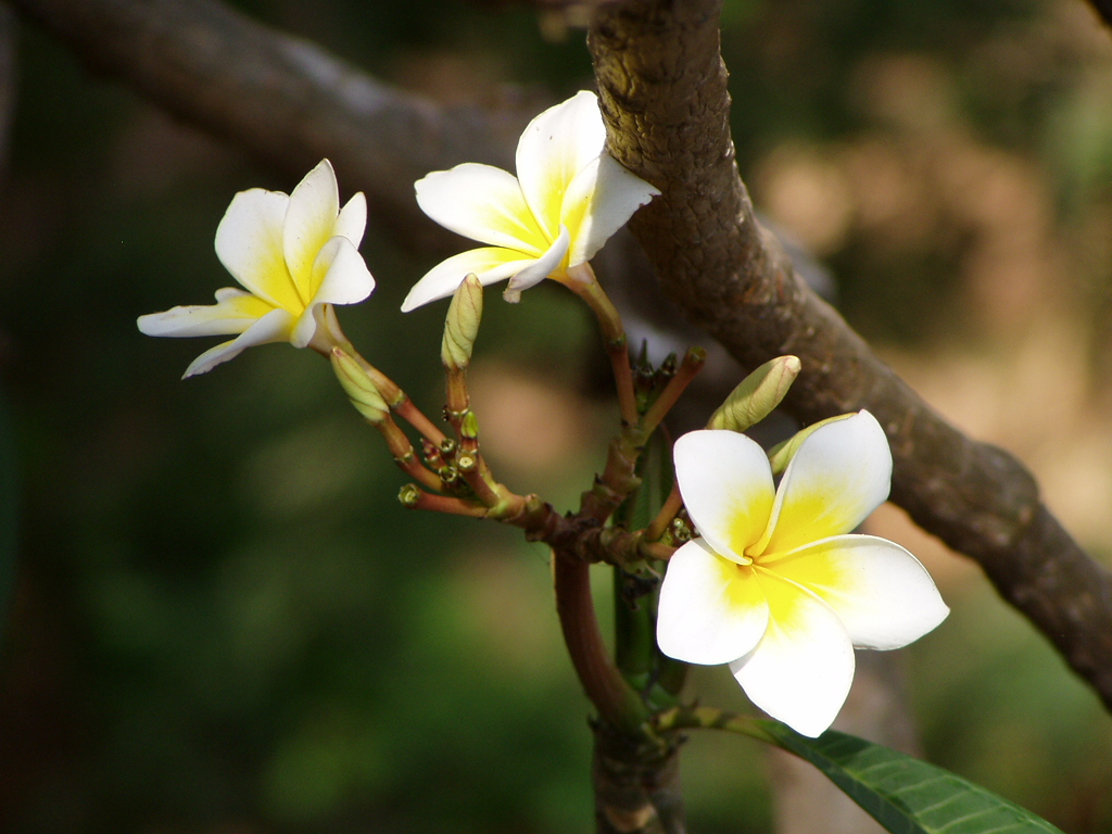 A white flower on trees with five petals and yellow tinged in the middle. It has strong fragrance, and blooms in spring. Plumeria rubra